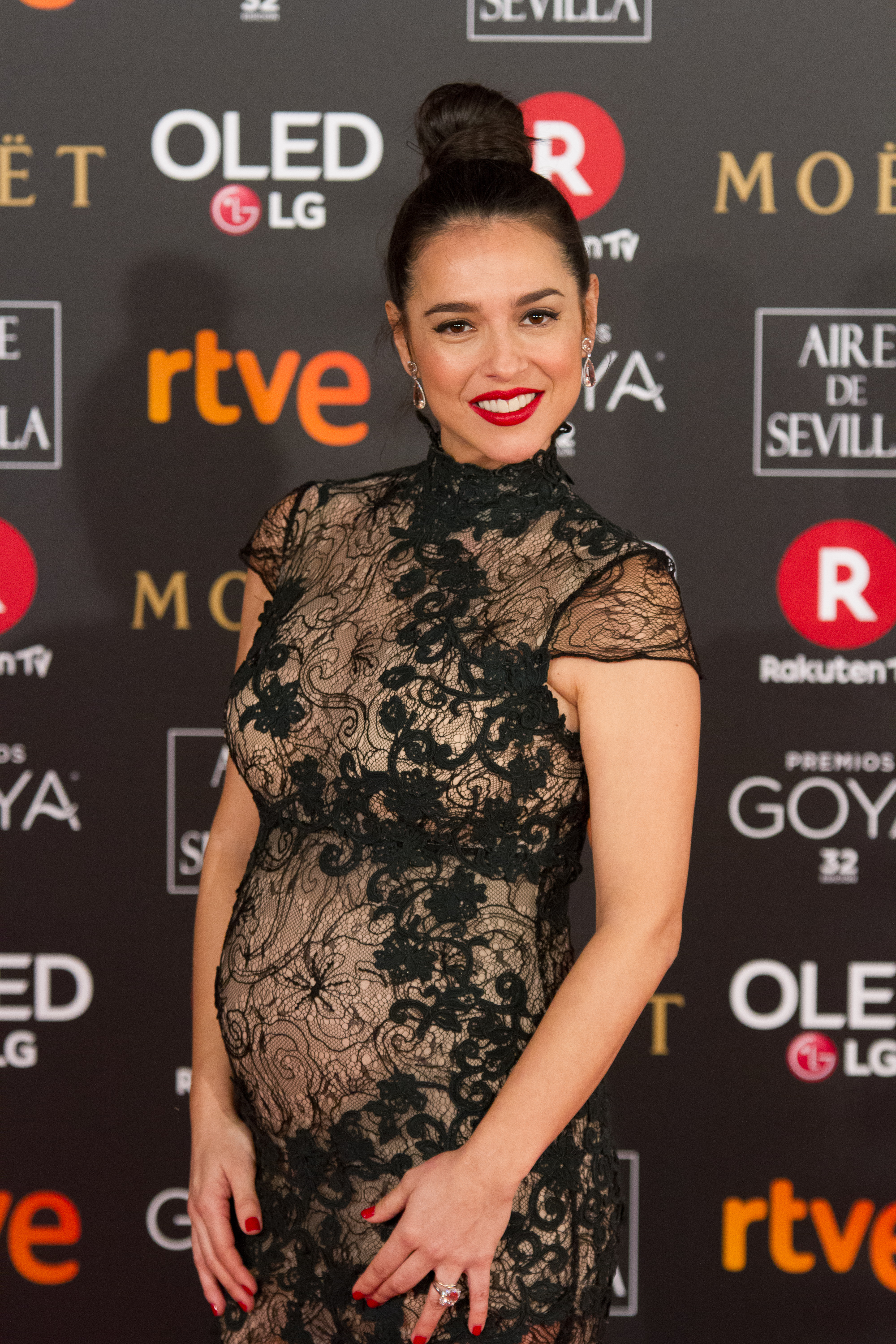 32nd Goya Awards, 2018.